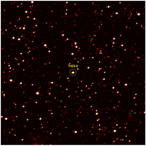 This image from NASA's Kepler Mission shows detail from the telescope's full field of view. At the center of this image is a star with a known "hot Jupiter" extrasolar planet, TrES-2b, orbiting around it every 2.5 days. The area pictured is one-thousandth of Kepler's full field of view, and shows hundreds of stars of the constellation Draco. The image has been color-coded so that brighter stars appear white, and fainter stars, red. It is a 60-second exposure, taken one day after the spacecraft's dust cover was jettisoned. Celestial north is to the left.